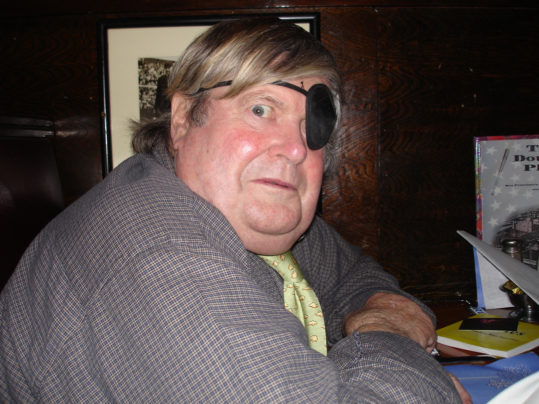 Warren Hinckle thinking about local politics in San Francisco